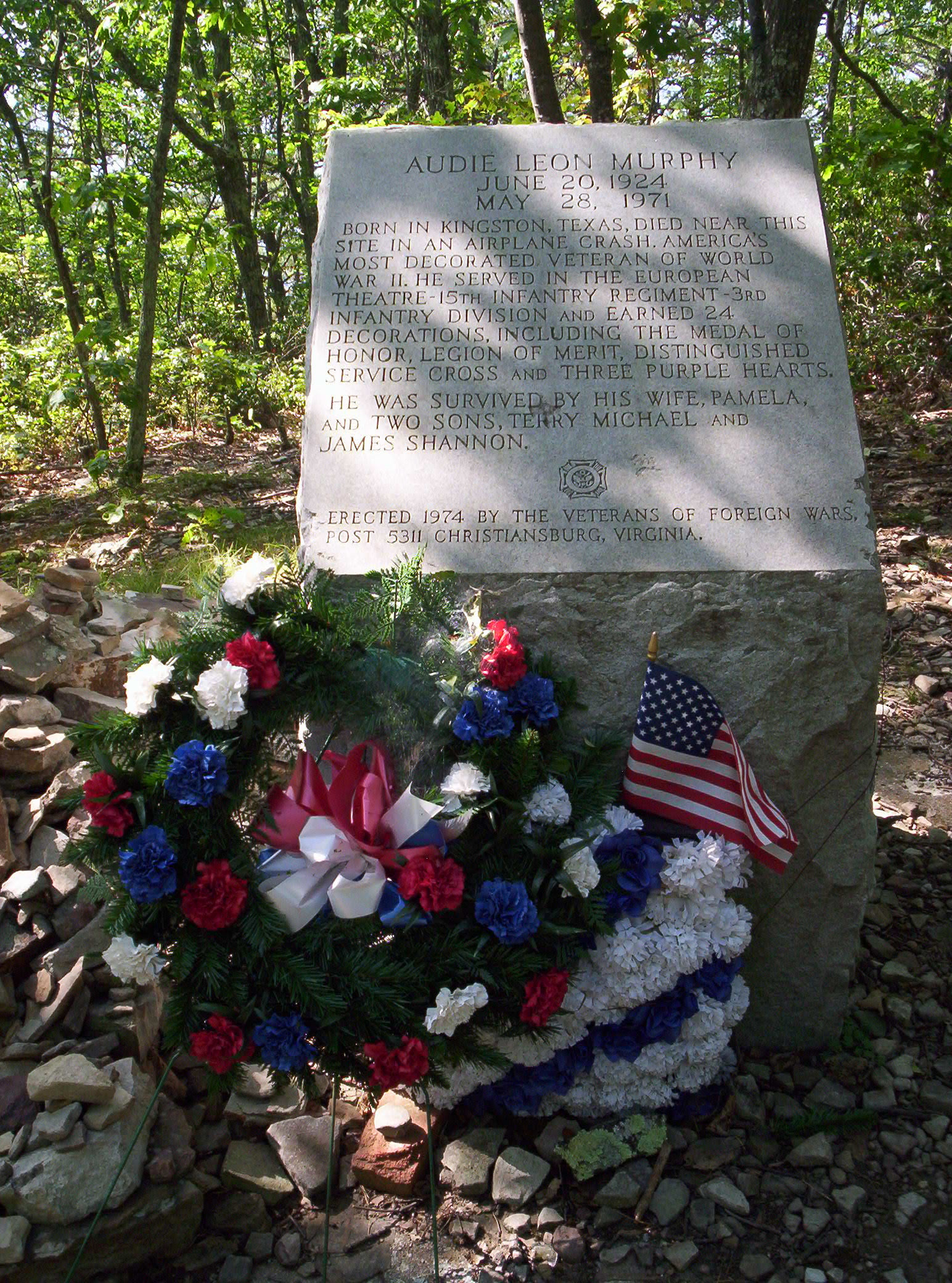 This is a monument to Audie Murphy roughly near the site of the plane crash in which he died, a couple hundred feet off the Appalachian Trail around twenty miles south of Catawba, VA. I took this picture during a southbound thru-hike of the Appalachian Trail on September 21, 2008.